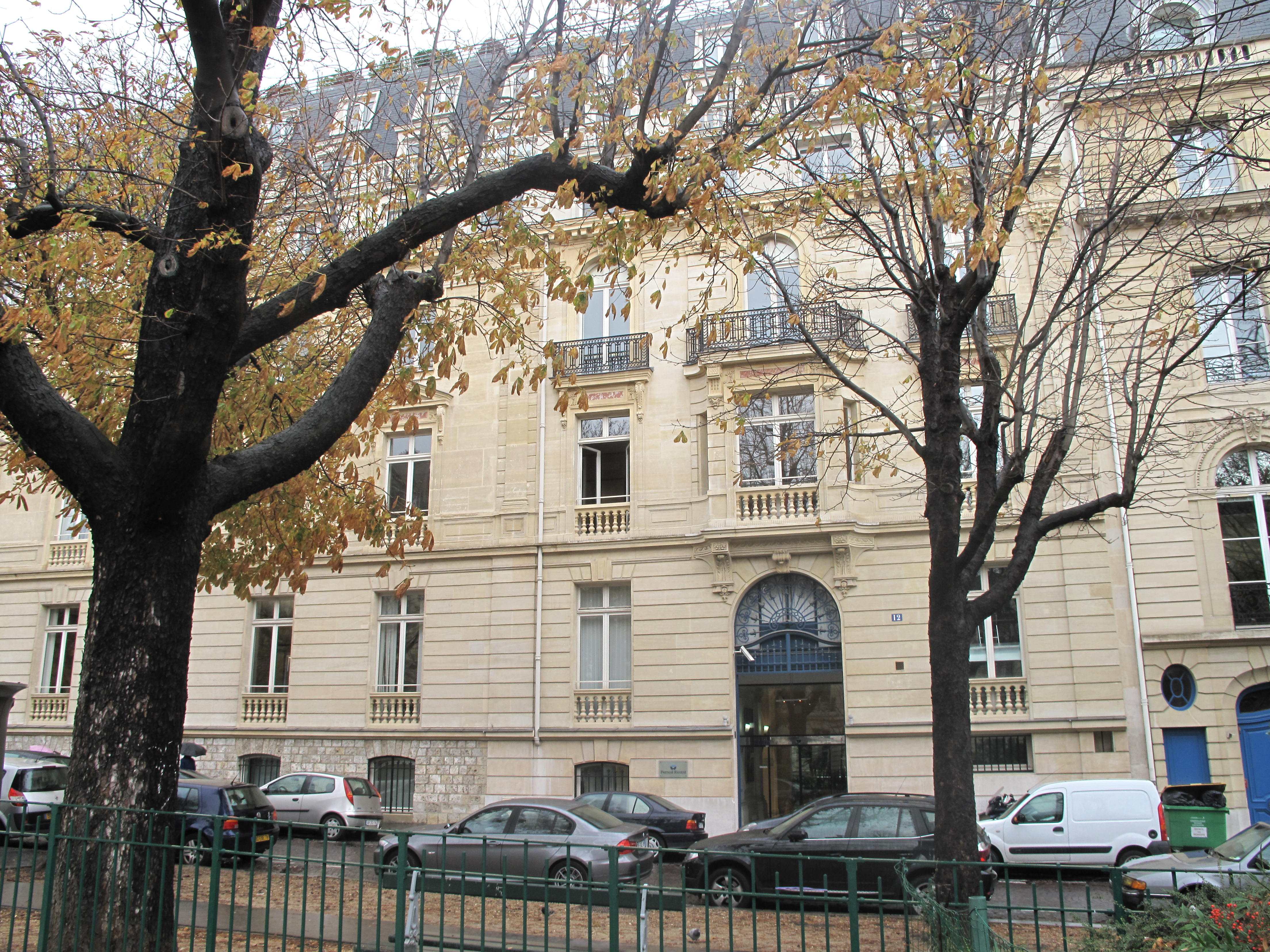 12 place des Etats-Unis, Paris 8th arr. Headquarters of the French company of spirits Pernod-Ricard